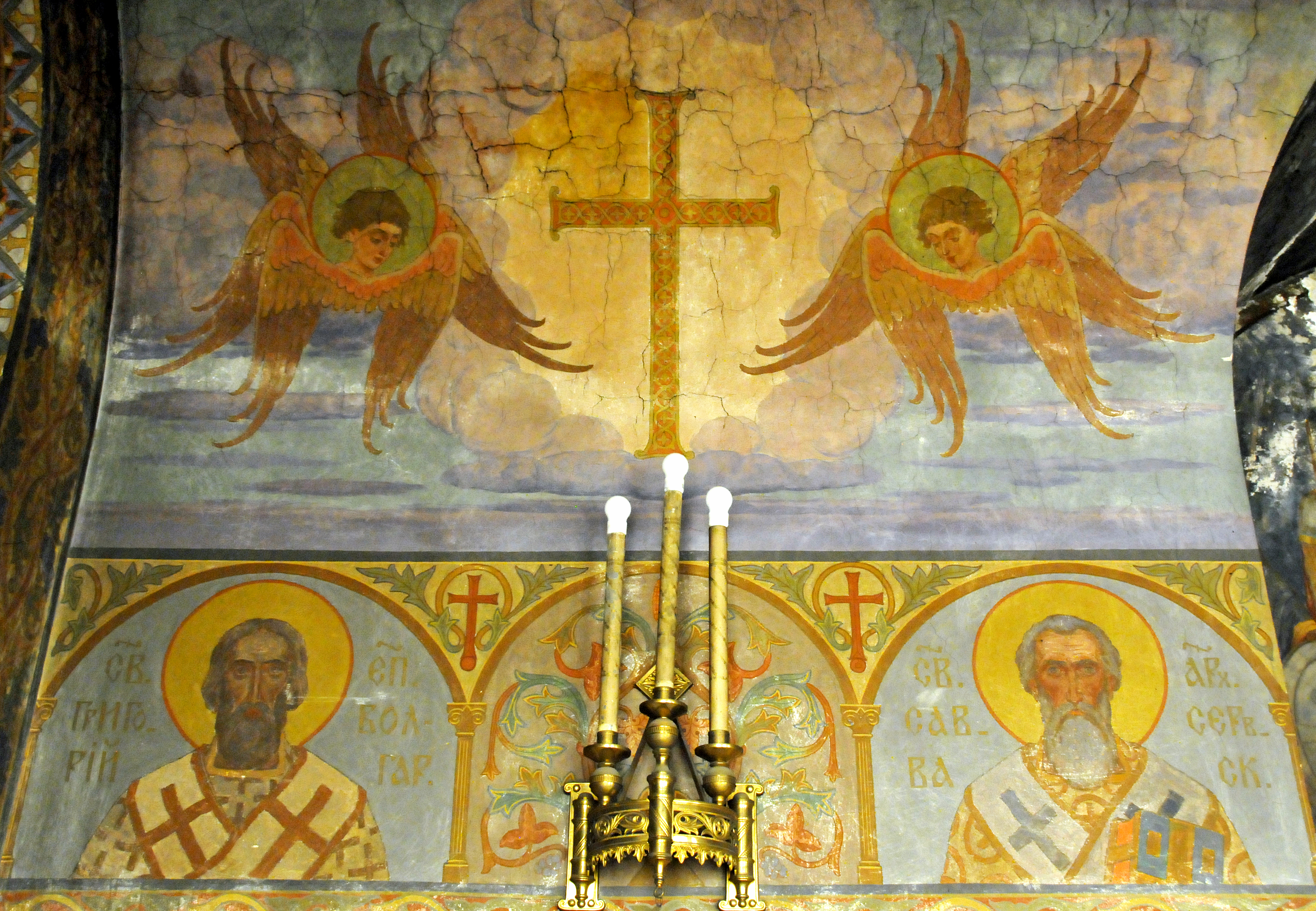 PLEASE, no multi invitations, glitters or self promotion in your comments, THEY WILL BE DELETED. My photos are FREE for anyone to use, just give me credit and it would be nice if you let me know, thanks - NONE OF MY PICTURES ARE HDR. The St. Alexander Nevsky Cathedral is a Bulgarian Orthodox cathedral in Sofia, the capital of Bulgaria. Built in Neo-Byzantine style, it serves as the cathedral church of the Patriarch of Bulgaria and is one of the largest Eastern Orthodox cathedrals in the world, as well as one of Sofia's symbols and primary tourist attractions. The St. Alexander Nevsky Cathedral occupies an area of 3,170 square meters (34,100 sq ft) and can hold 10,000 people inside. The construction of the St. Alexander Nevsky Cathedral started in 1882 (having been planned since 19 February, 1879), when the foundation stone was laid, but most of it was built between 1904 and 1912. Saint Alexander Nevsky was a Russian prince. The cathedral was created in honour to the Russian soldiers who died during the Russo-Turkish War of 1877-1878, as a result of which Bulgaria was liberated from Ottoman rule.